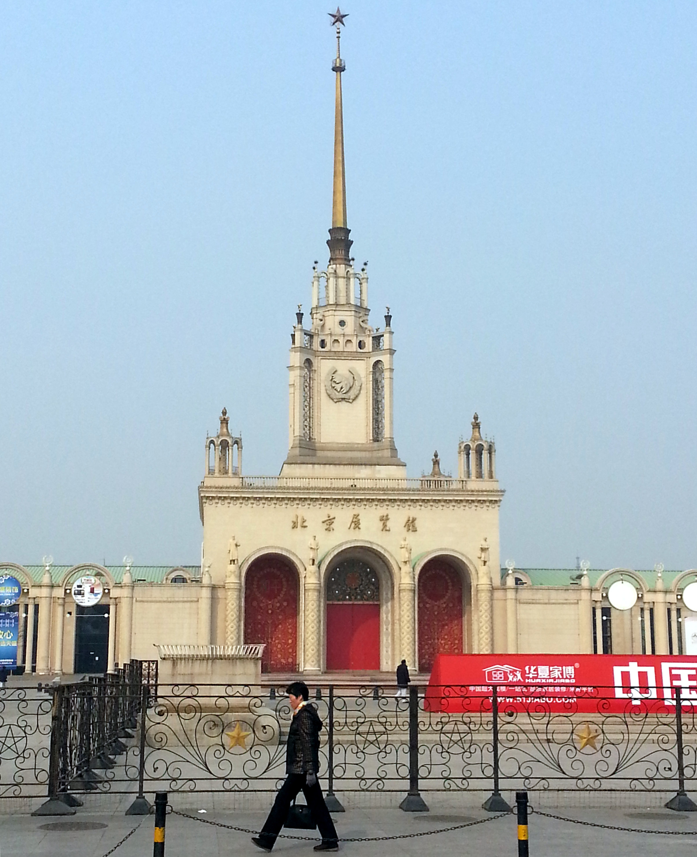 Photograph of the Beijing Exhibition Center (北京展览馆) in March 2014